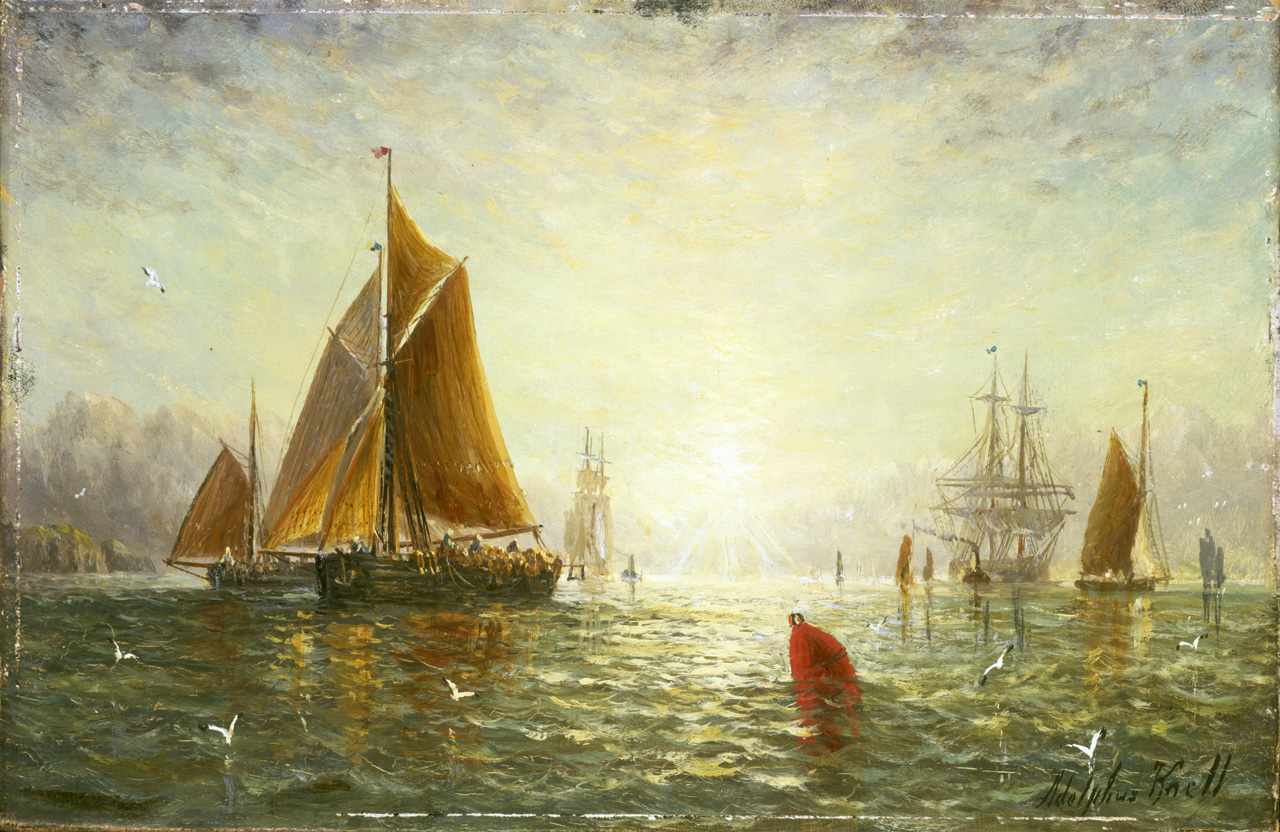 A Brixham trawler by William Adolphus Knell, now in the Royal Museums Greenwich. See Brixham trawler.